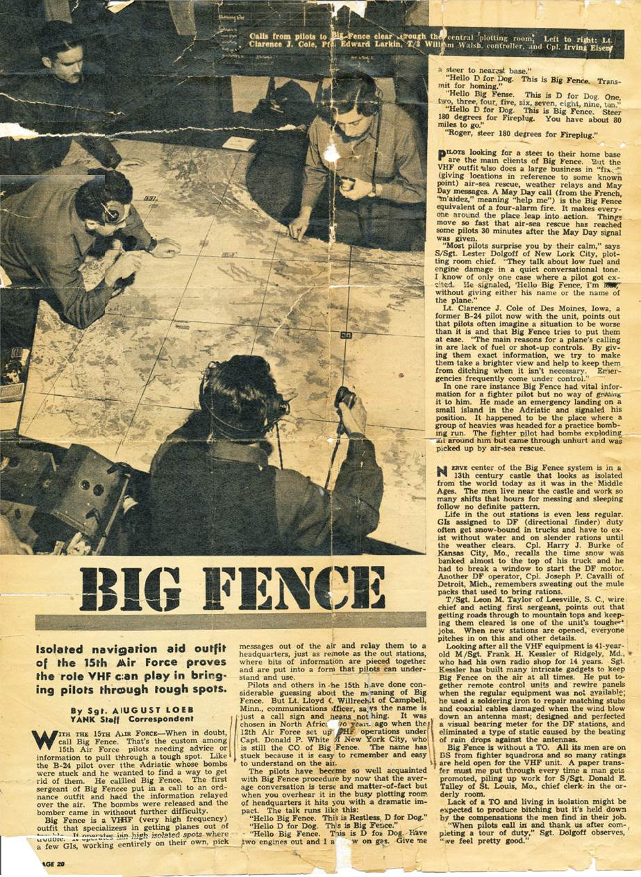 Big Fence by Sgt. August Loeb, YANK Staff Correspondent